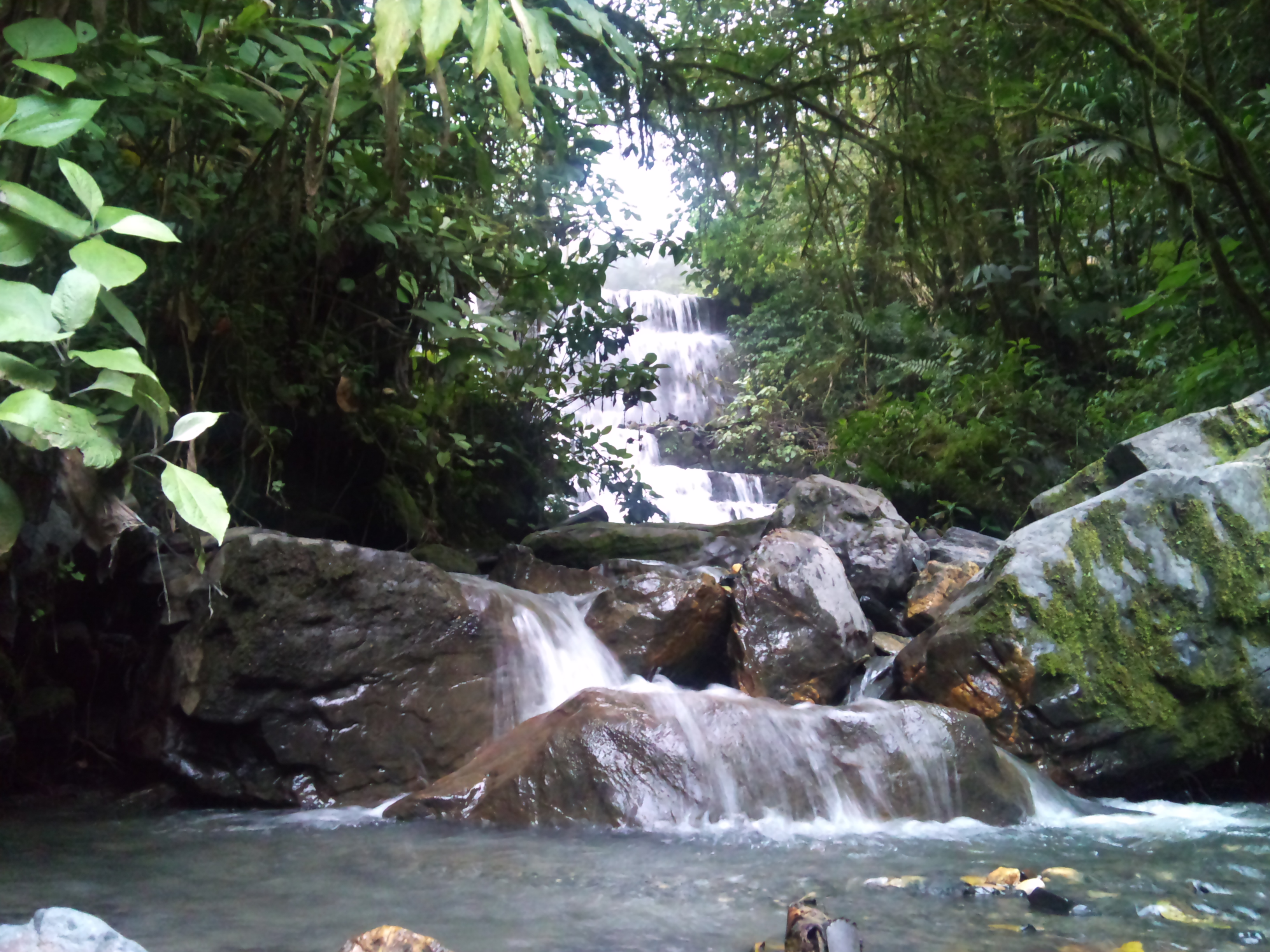 tierra virgen hermoso paisaje que atrapa y te lleva a lo natural al verde que llevas por dentro y llegas a fusionarte con el paisaje 100% recomendado